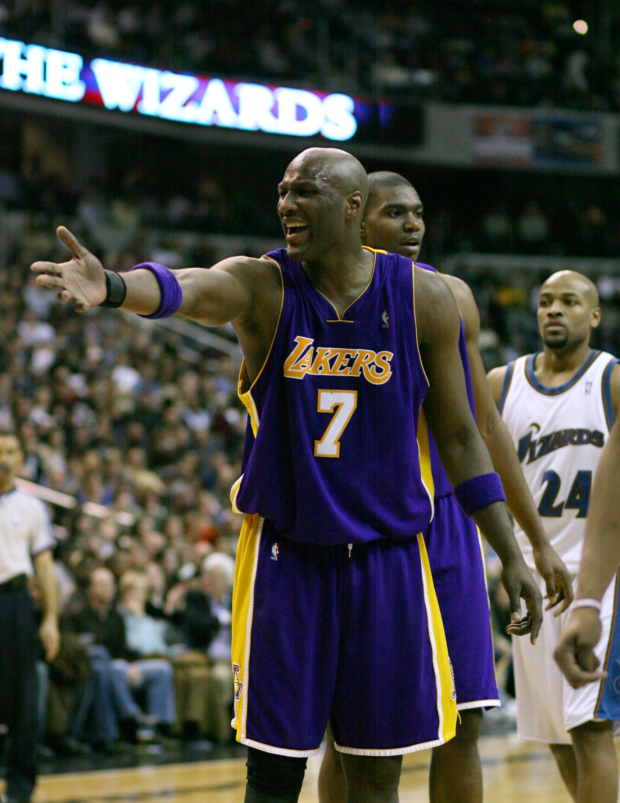 Lamar Odom playing with the Los Angeles Lakers